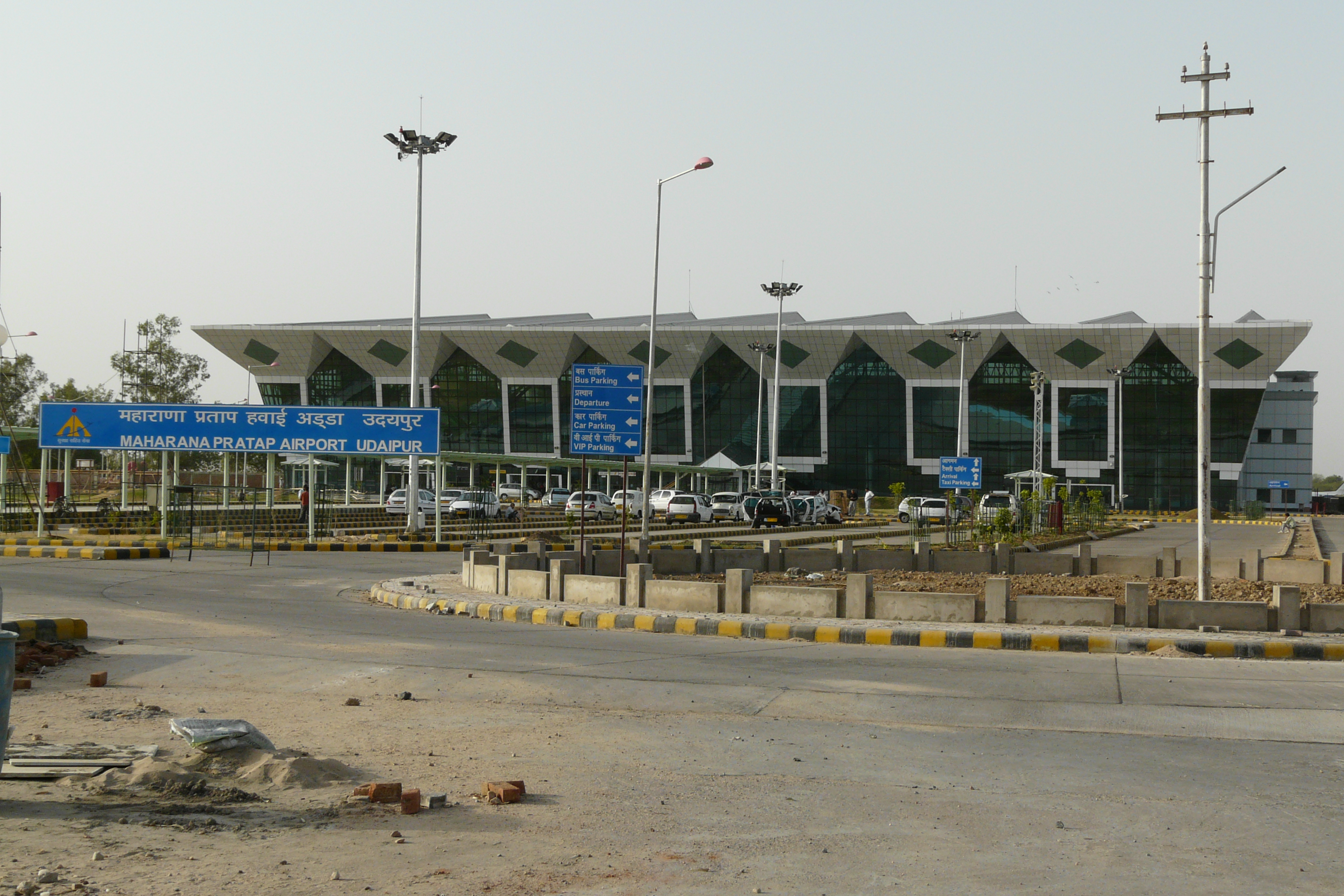 Terminal building at Maharana Pratap Airport, Udaipur, India.